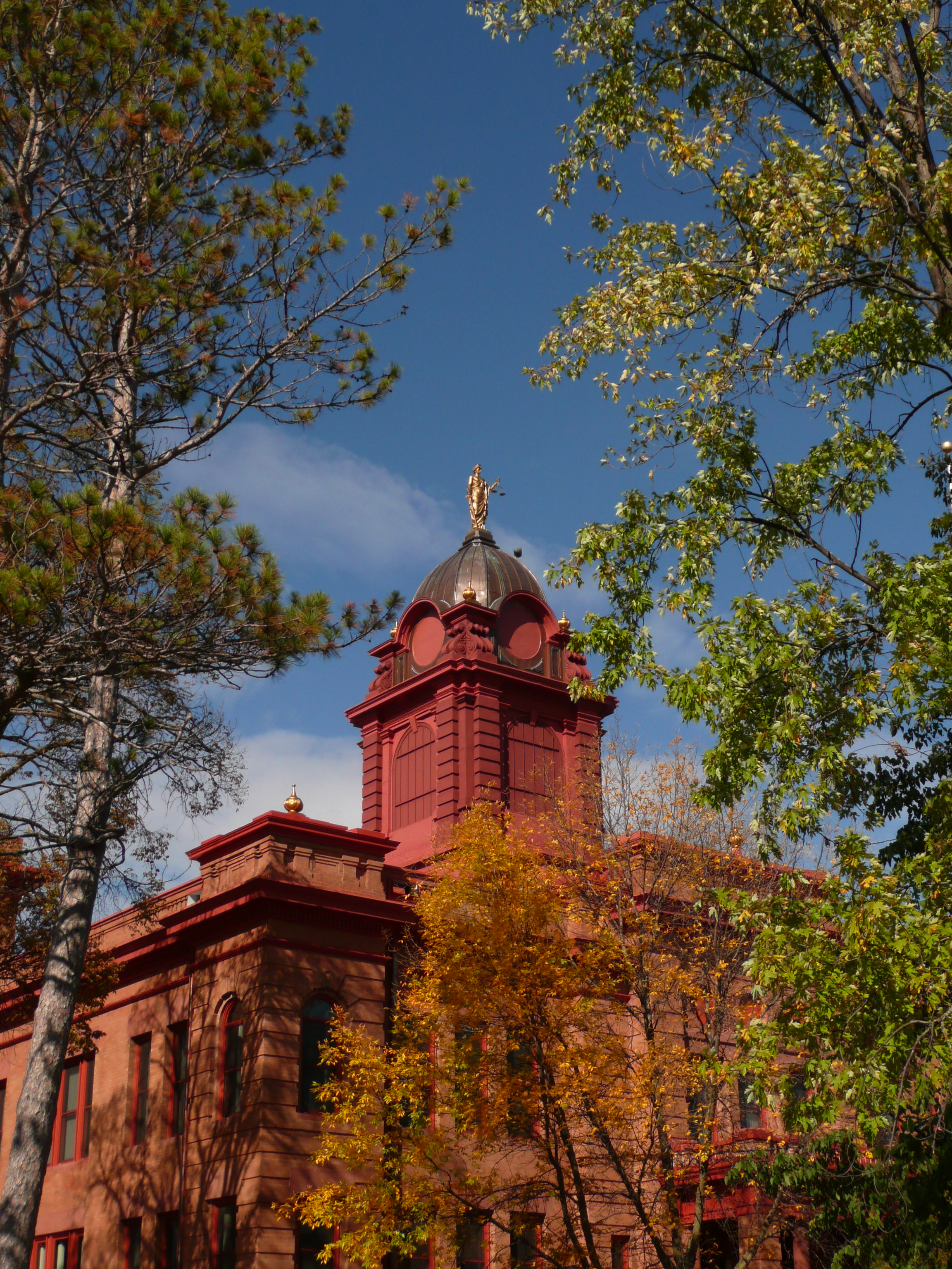 Beltrami County Courthouse, Beltrami Ave. and 6th St. Bemidji